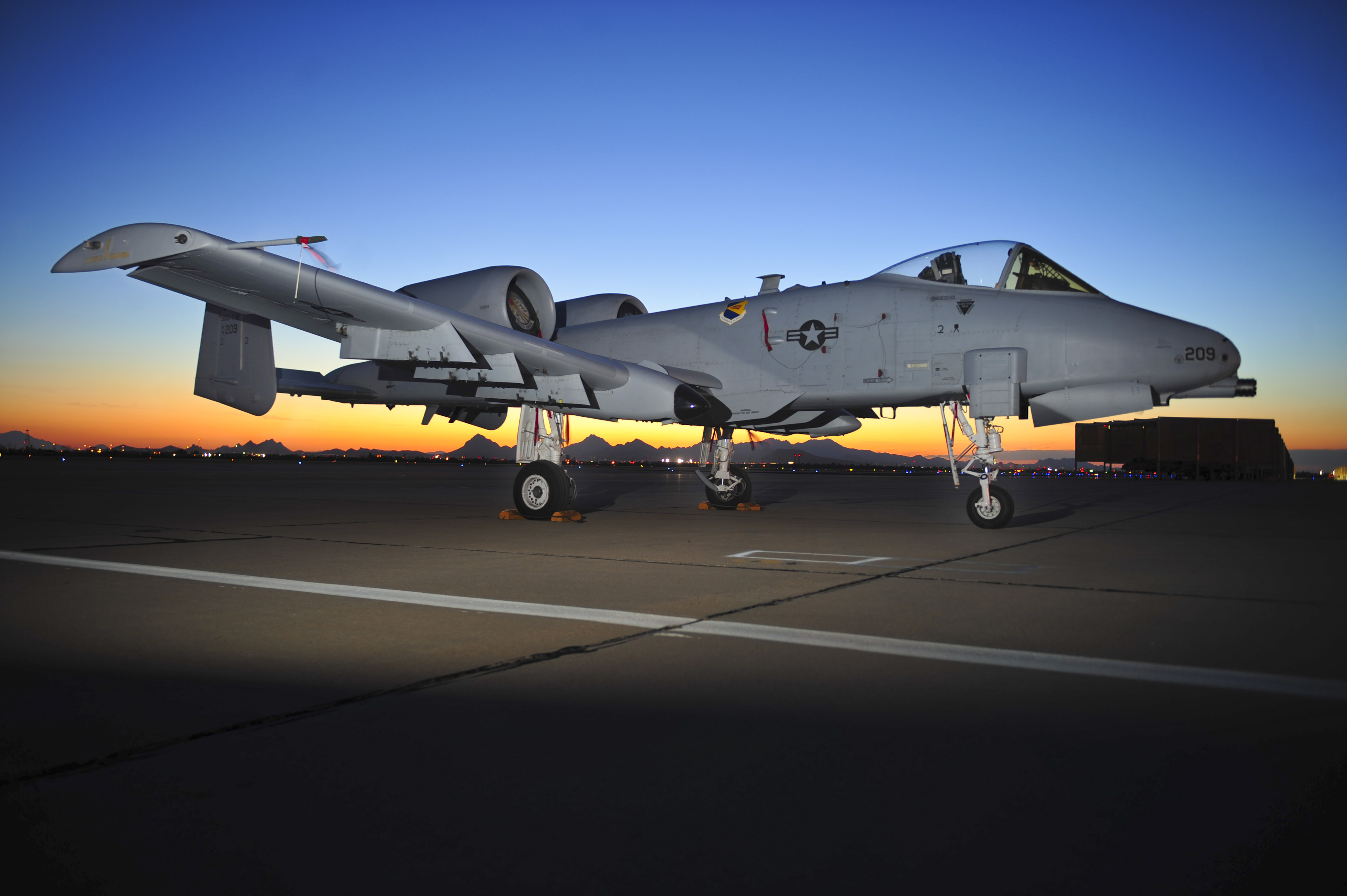 An A-10C Thunderbolt II sits on the flight line at Davis-Monthan Air Force Base, Ariz., April 24, 2015. The A-10C has excellent maneuverability at low air speeds and altitude, and is a highly accurate and survivable weapons-delivery platform. The aircraft can loiter near battle areas for extended periods of time and operate in low ceiling and visibility conditions. (U.S. Air Force photo by Senior Airman Cheyenne A. Powers/Released) Unit: 355th Fighter Wing DVIDS Tags: Flagship; Sunset; Tucson; A-10; Warthog; Arizona; Thunderbolt; Dragons; Sunet; 355th Fighter Wing; 355th; 357th; 357th Fighter Squadron